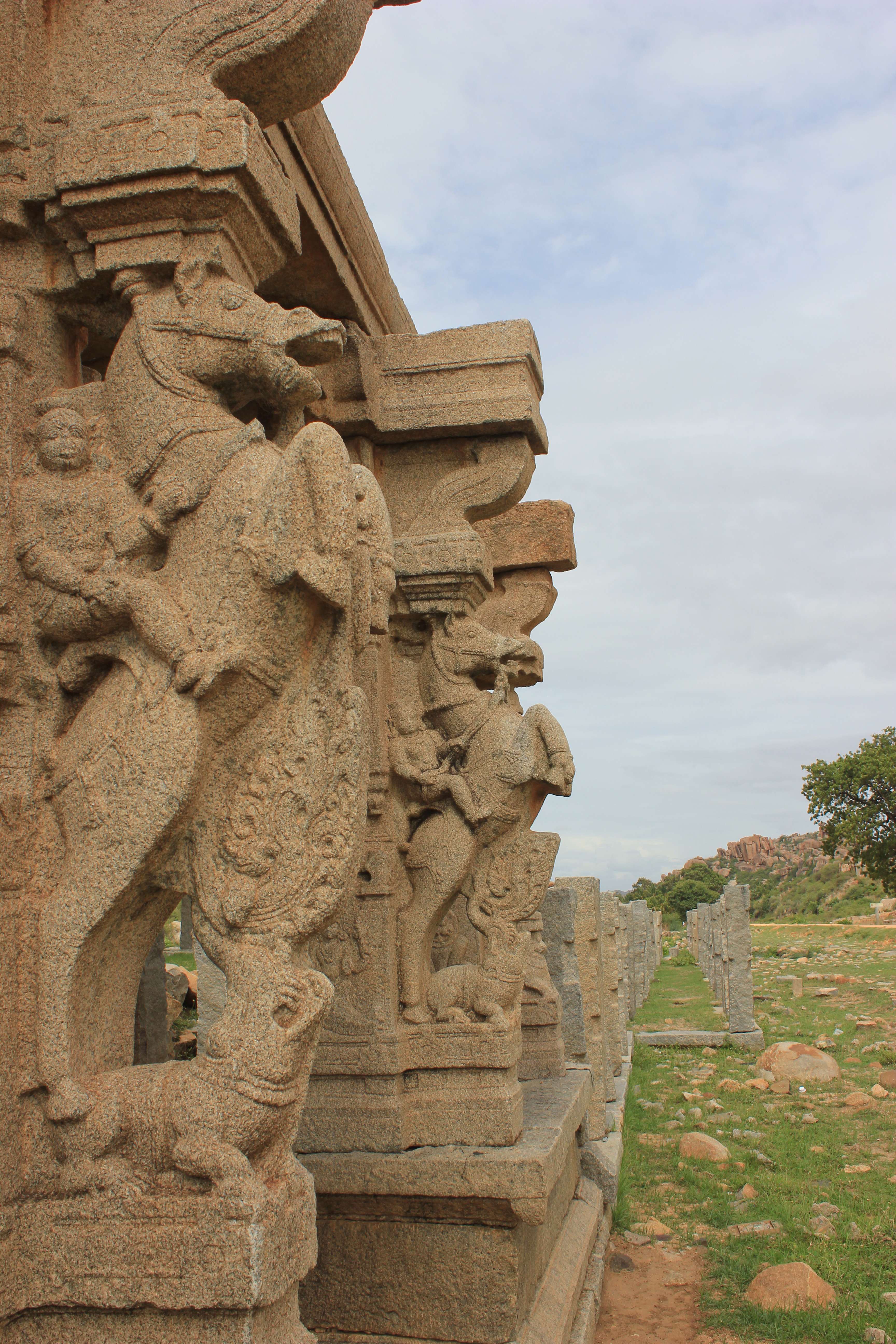 This photograph of horse pillars was taken by me at Hampi, a UNESCO world heritage site in Bellary district, Karnataka state, India.